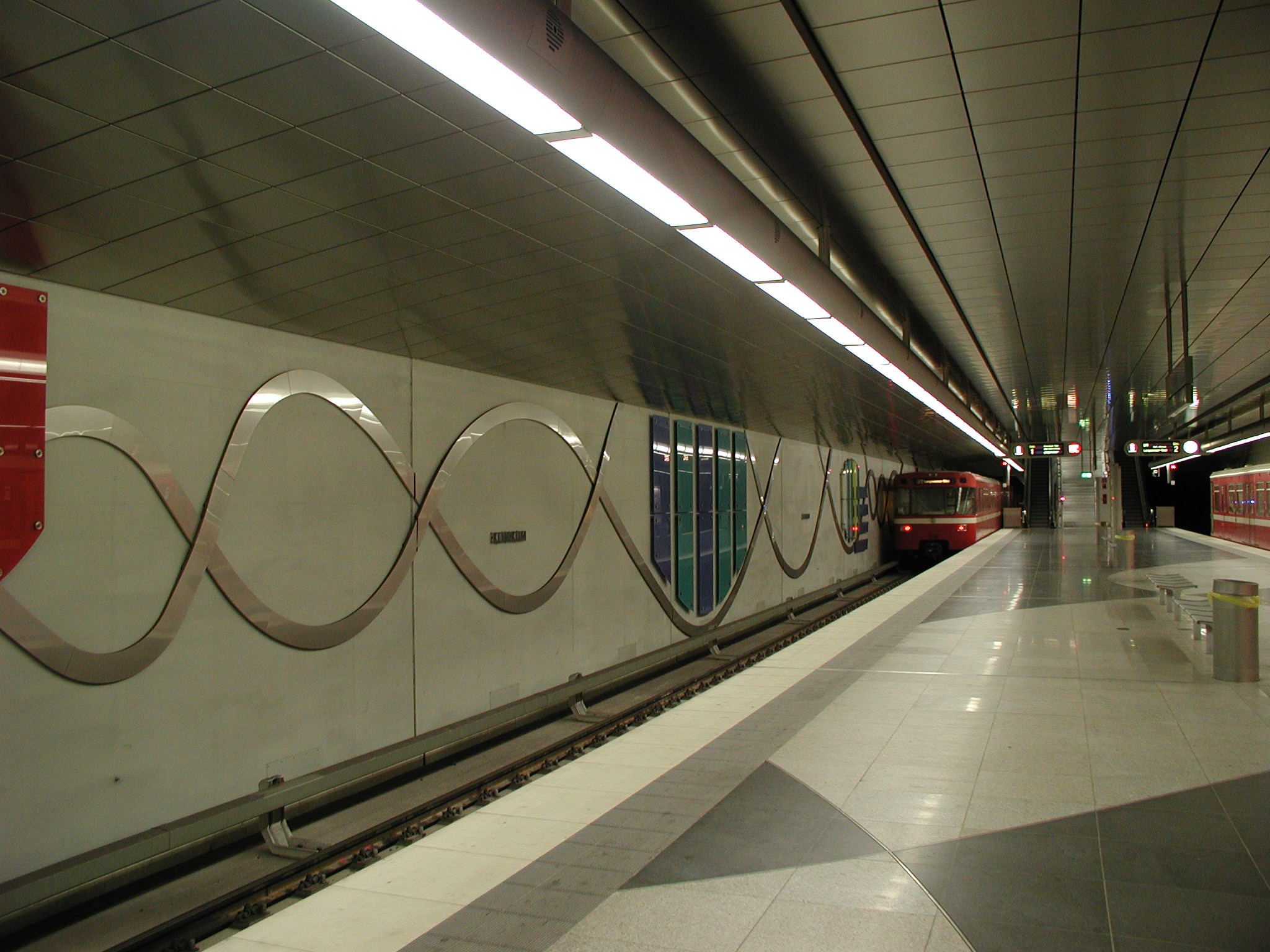 Subway station Fuerth Hospital U-Bahnhof Fürth Klinikum